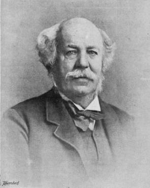 A photograph of Henry C. Rawlinson.